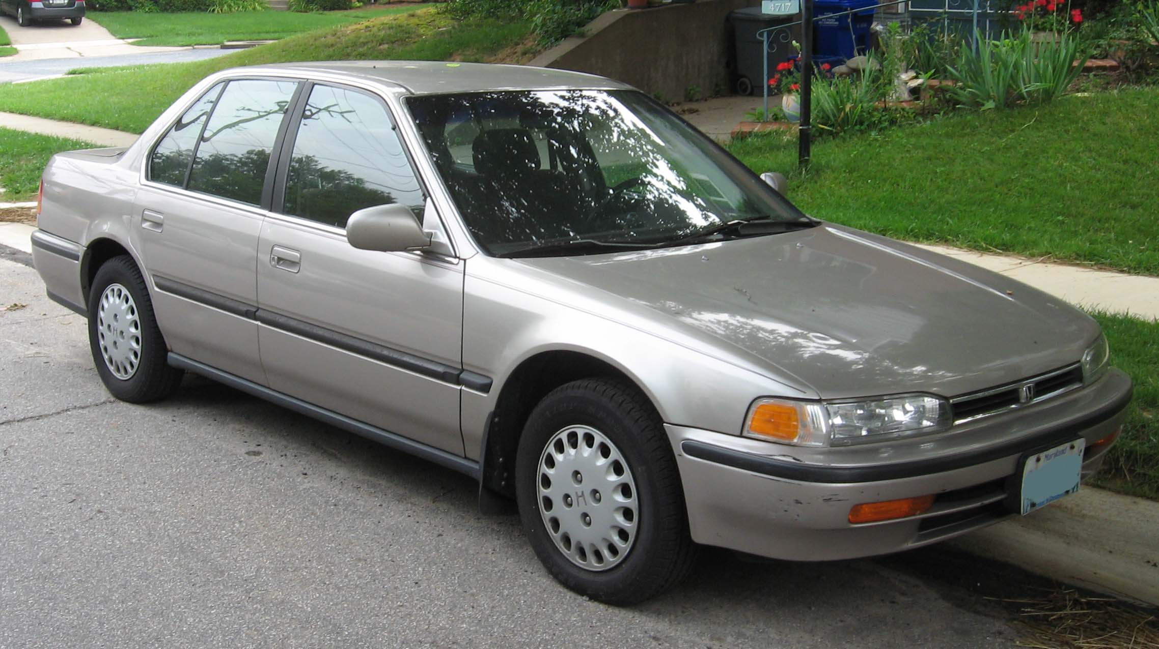 1990-1993 Honda Accord photographed in USA.